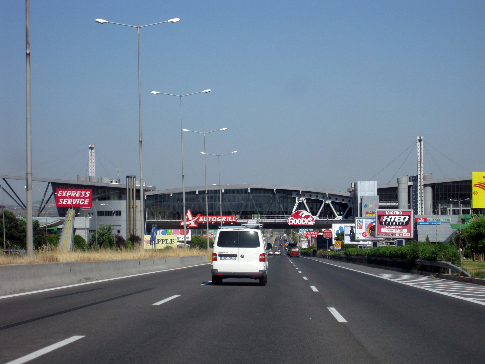 Autogrill restaurant on the A1 north of Athens